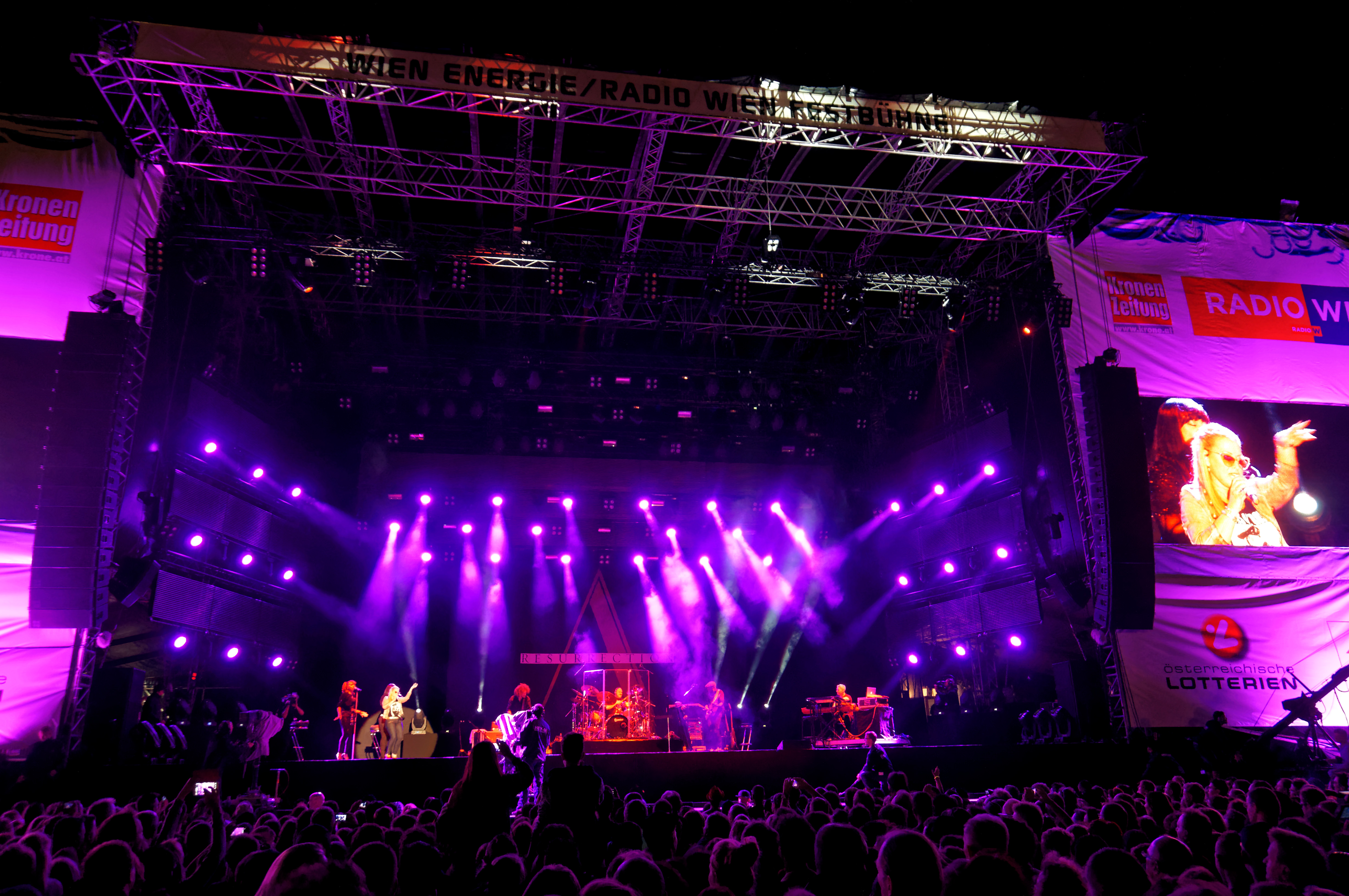 Anastacia performing on the Danube Island in Vienna during the Donauinselfest 2015